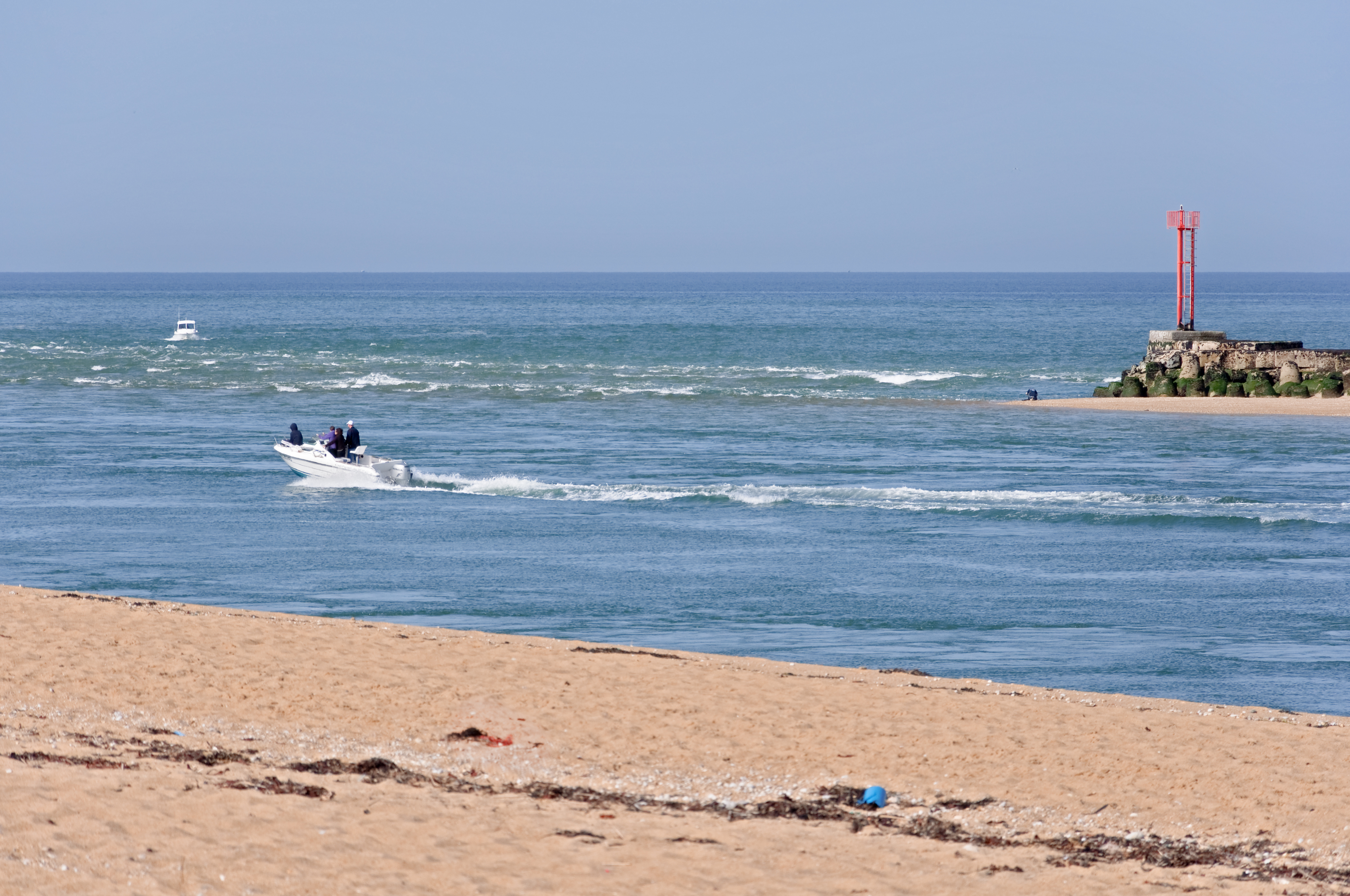 The Étel sandbar, an underwater shoal across the mouth of Étel river, constitutes a hazard to navigation (Morbihan, Brittany, France).